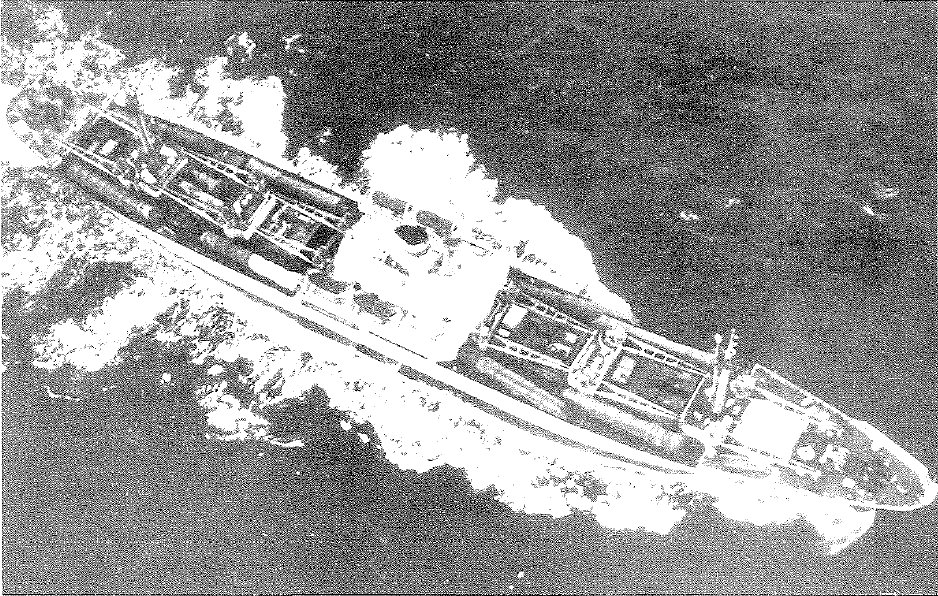 The Soviet cargo vessel Metallurg Anosov, carrying eight missile transporters with canvas-covered missiles, departs Cuba on November 7, 1962. Courtesy National Imagery and Mapping Agency, Washington